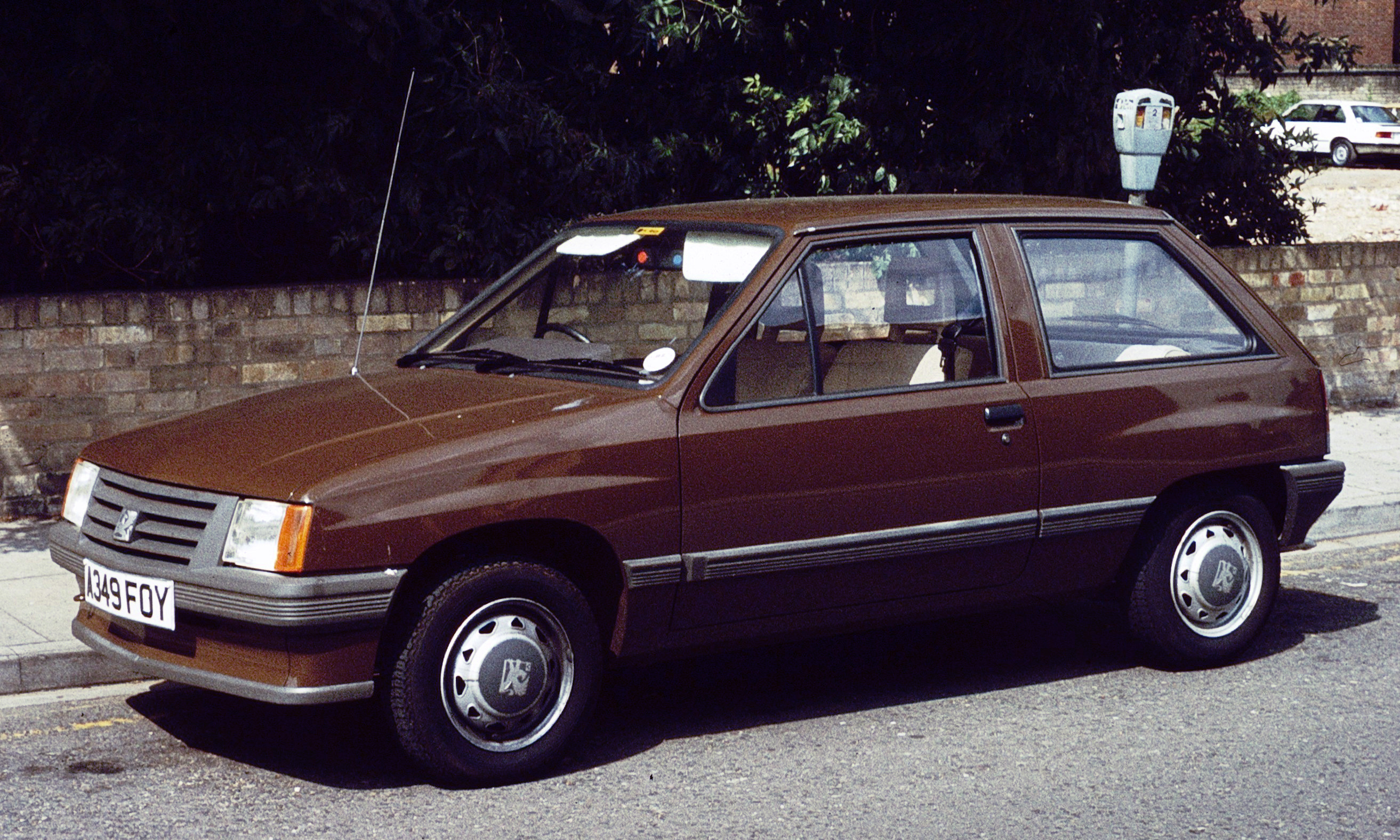 Opel Corsa A, badged as a Vauxhall Nova in UK